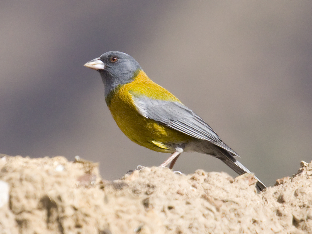 A Peruvian Sierra Finch near Cusco, Peru.